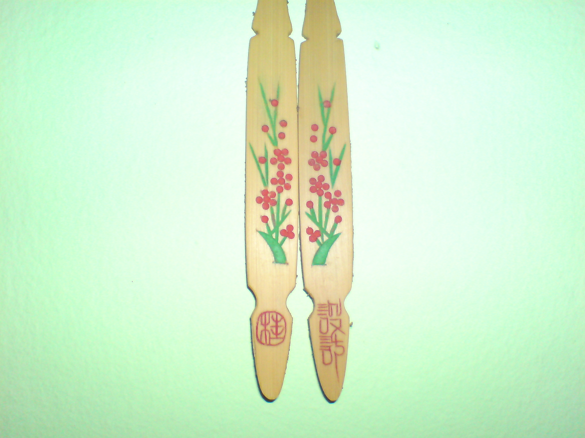 Bodies and plucking surfaces of a pair of yangqin hammers.